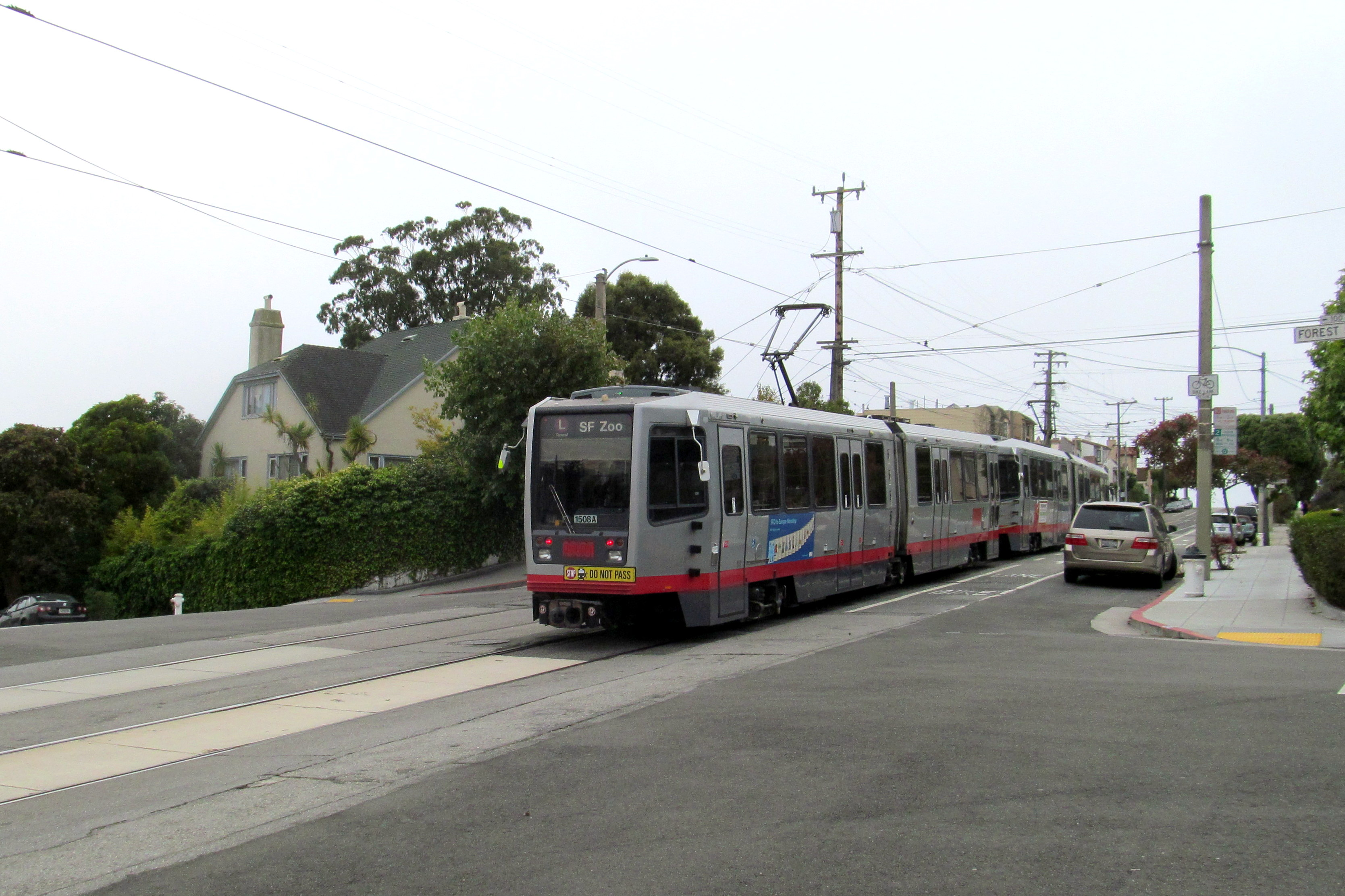 An outbound train at Ulloa Street & Forest Side Avenue in June 2017